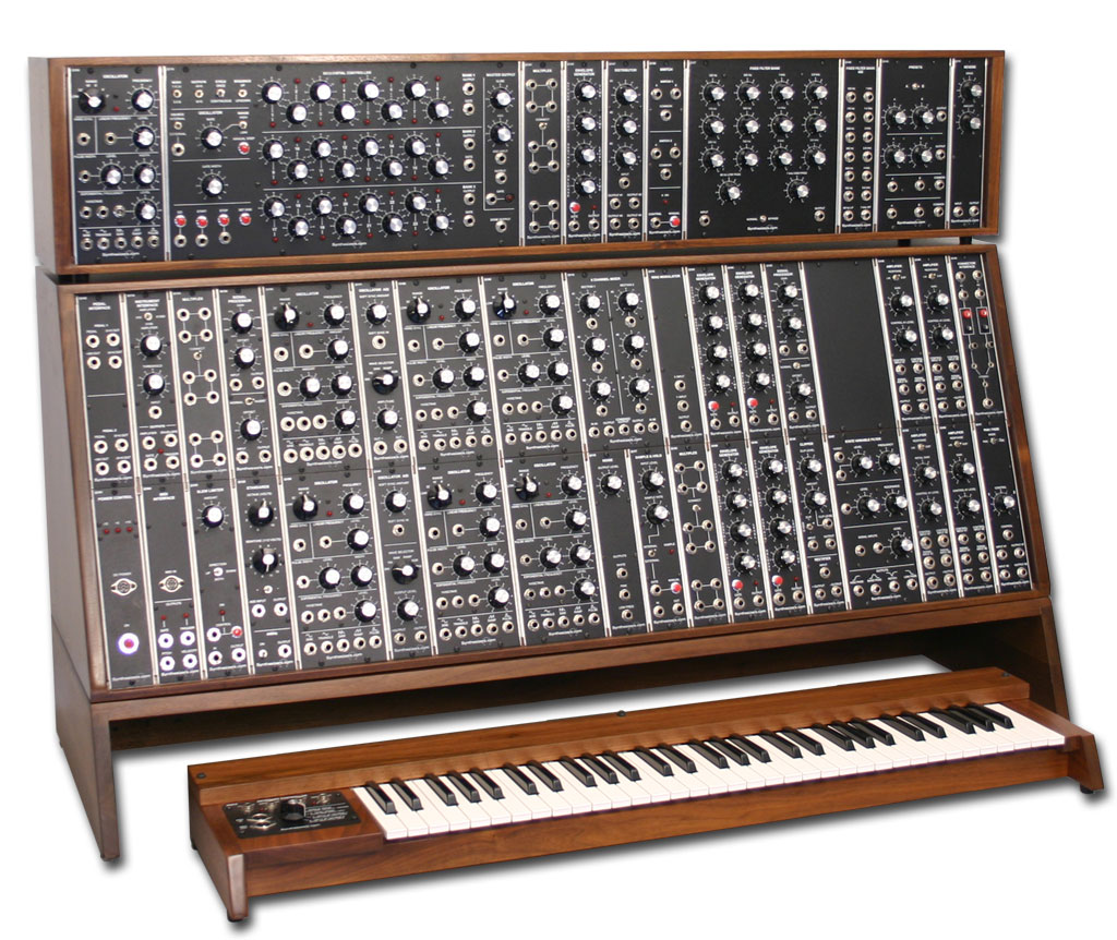 Modular Analog Synthesizer Submitted by Roger Arrick, owner of picture